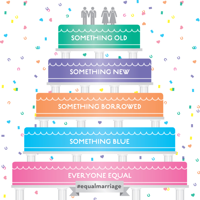 Infographic and campaign graphics for the launch of equal marriage in England and Wales.